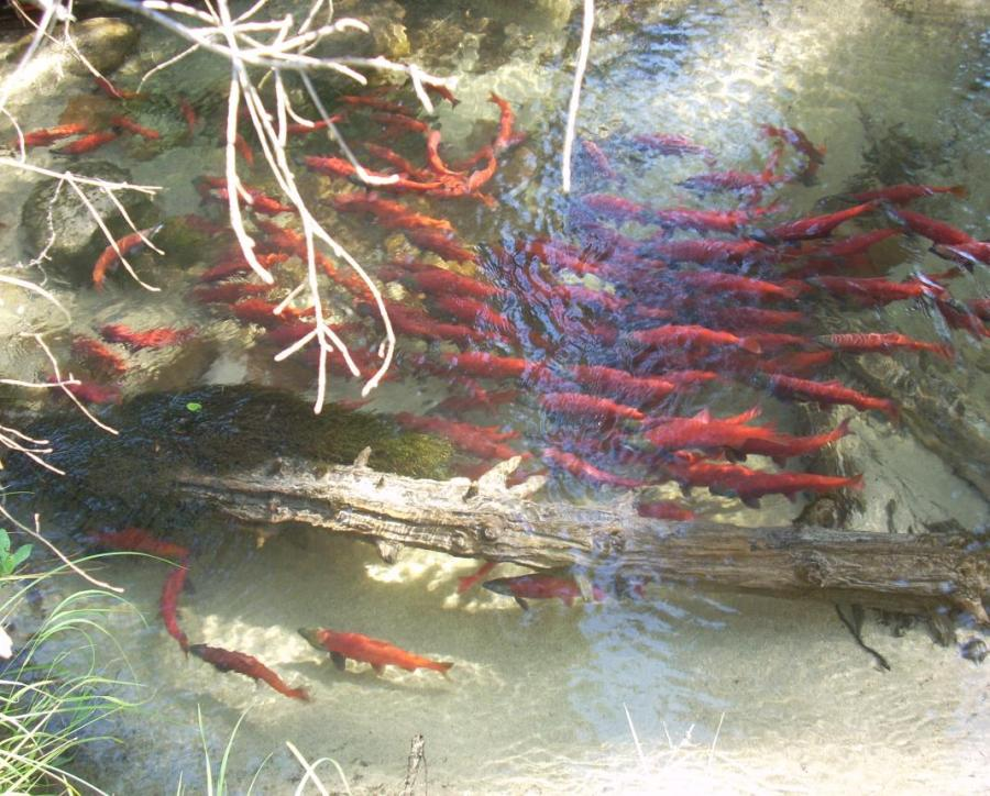 Spawning Kokanee salmon (Oncorhynchus nerka) in Boise National Forest, Idaho